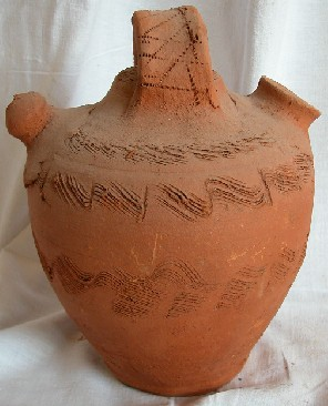 Botijo decorated incisa (geometric motifs and waves of water). Zarzuela de Jadraque (Guadalajara), Spain popular pottery.